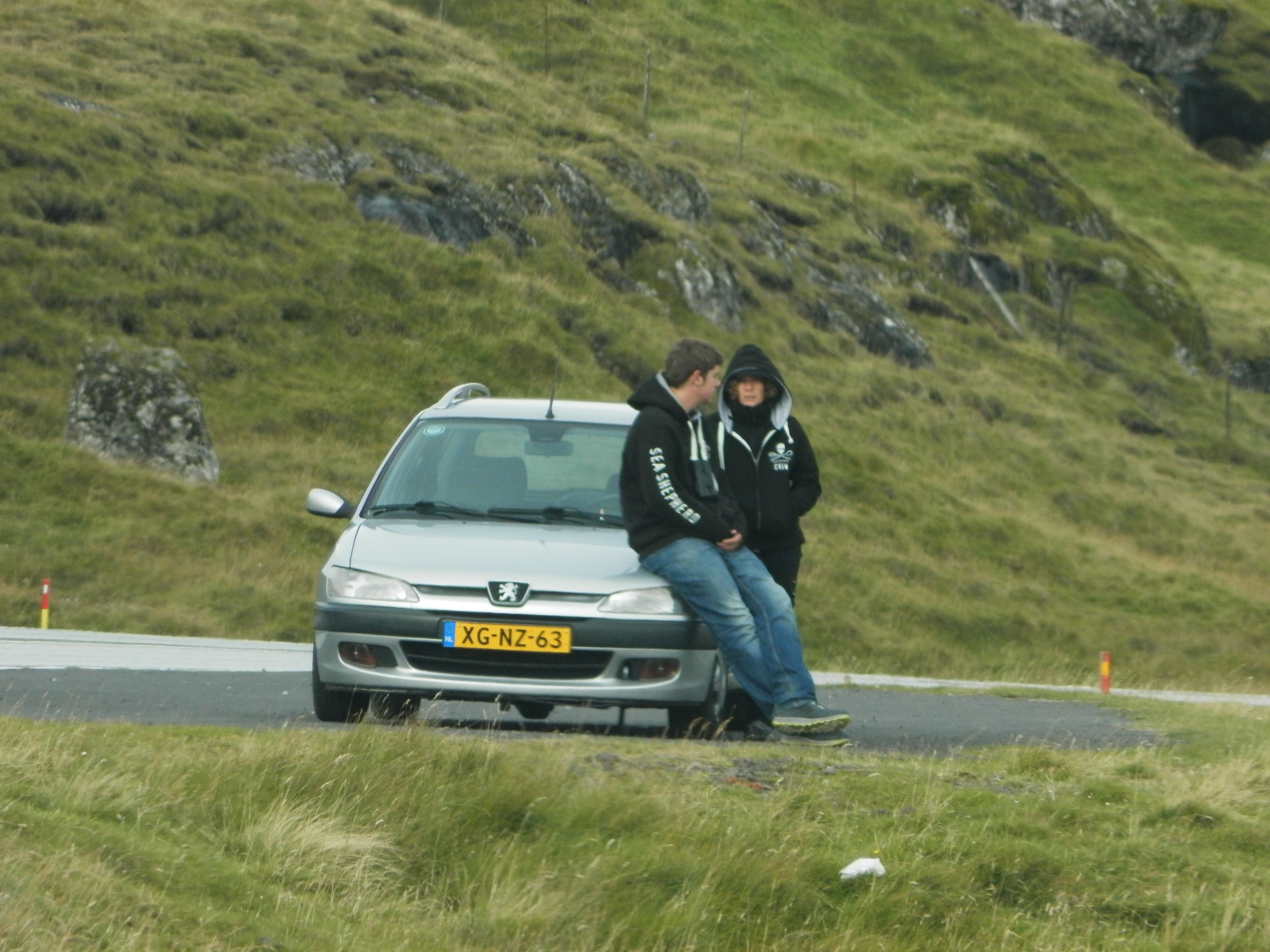 Two supporters of Sea Shepherd in Hoyvík, Faroe Islands.